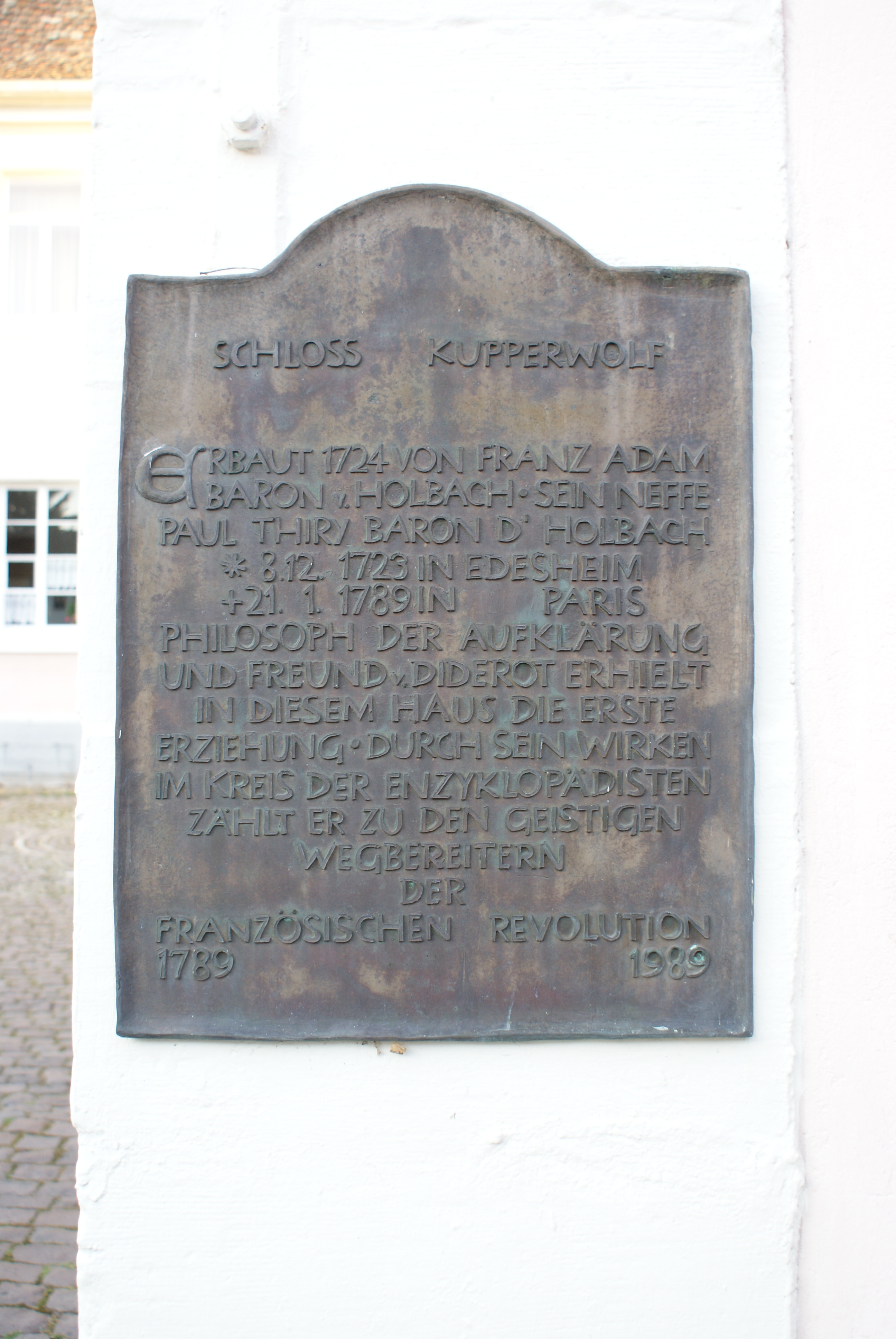 sign on birthhouse of Paul_Henri_Thiry_d’Holbach in edesheim